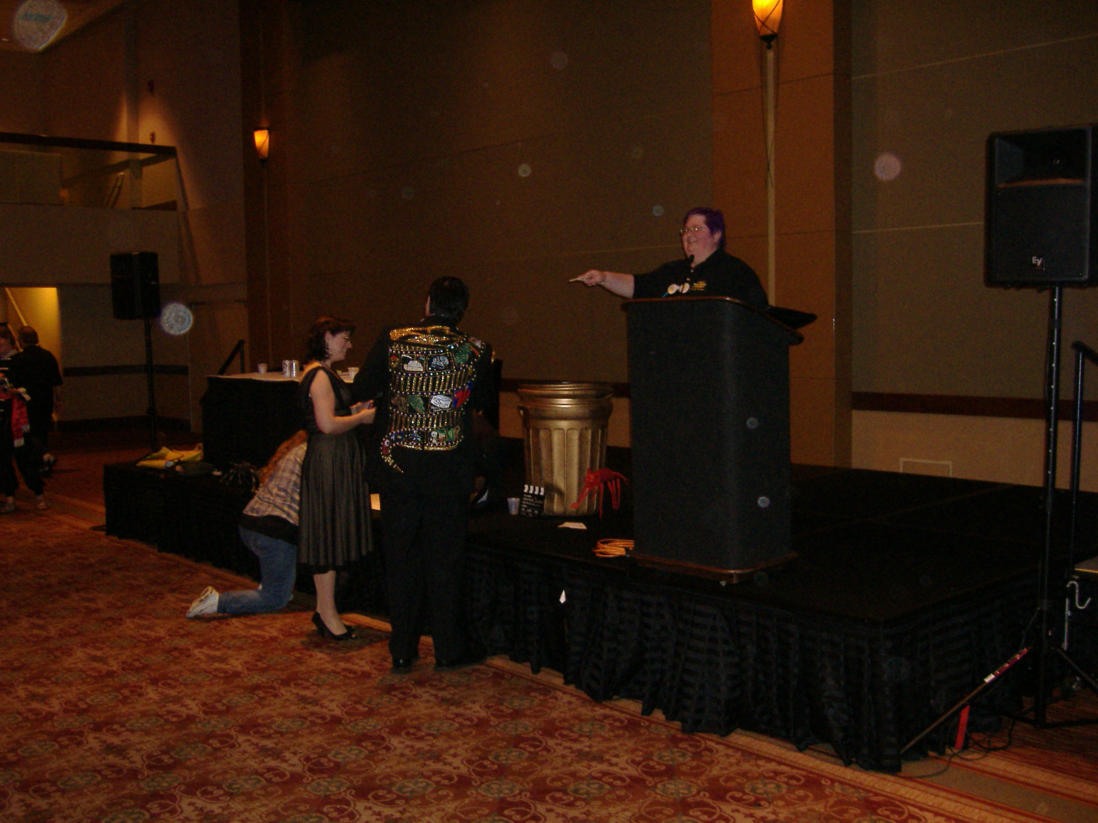 The Smithee Awards organizers behind the scenes, at the Origins Game Fair 2007 in Columbus, Ohio.